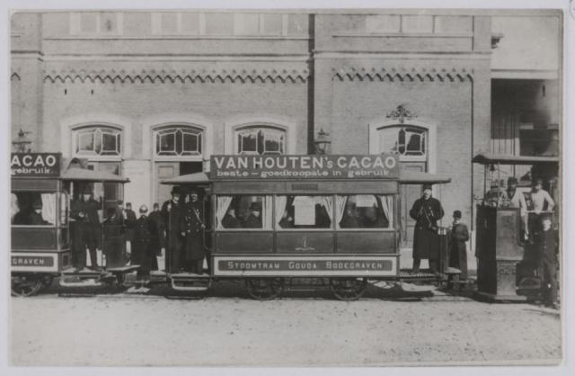 The steam tram between Gouda and Bodegraven in front of Gouda railway station.